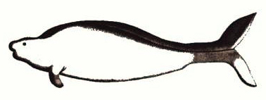 Illustration thought to be the only picture of Steller's Sea Cow drawn from an actual specimen, a killed female examined by Steller.